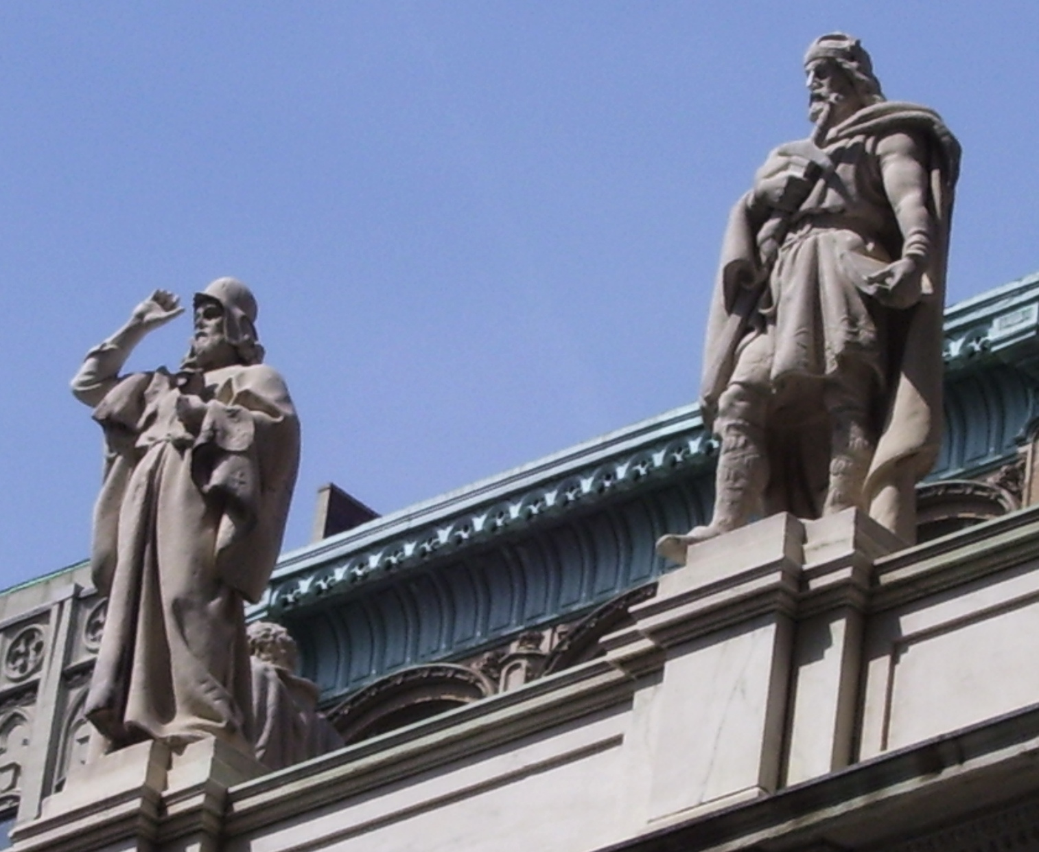 The first and second statues (counting in from Madison Avenue) on top of the Appellate Division Courthouse on 25th Street at Madison Avenue, across from Madison Square Park.